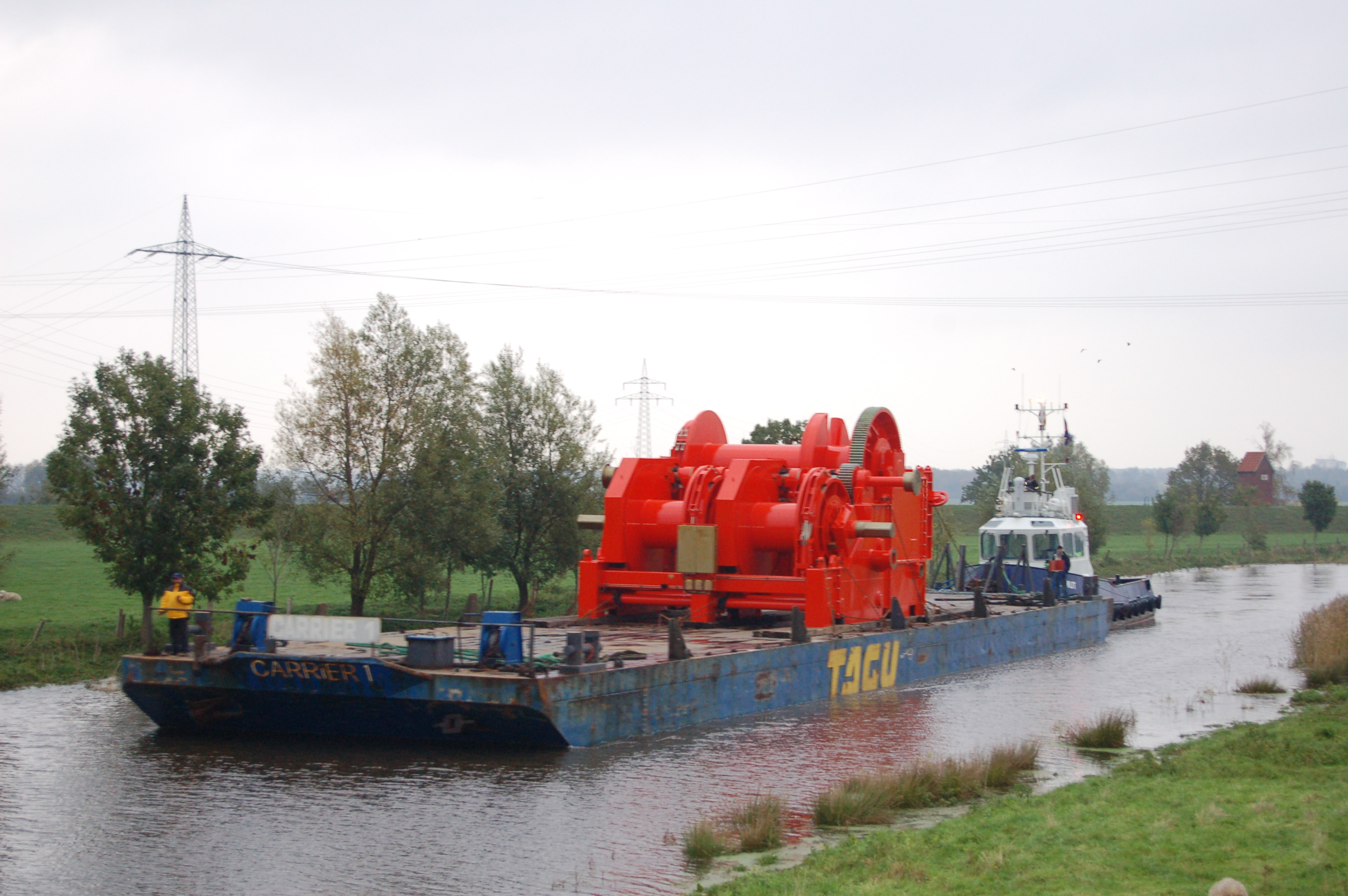 The largest Anchor windlass of the World (262 dead weight tons)passed the Pinnau at Neuendeich